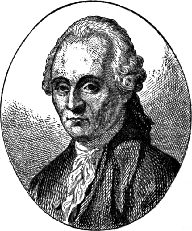 Antoine Court de Gébelin (ca.1719 – May 10, 1784), French Protestant writer